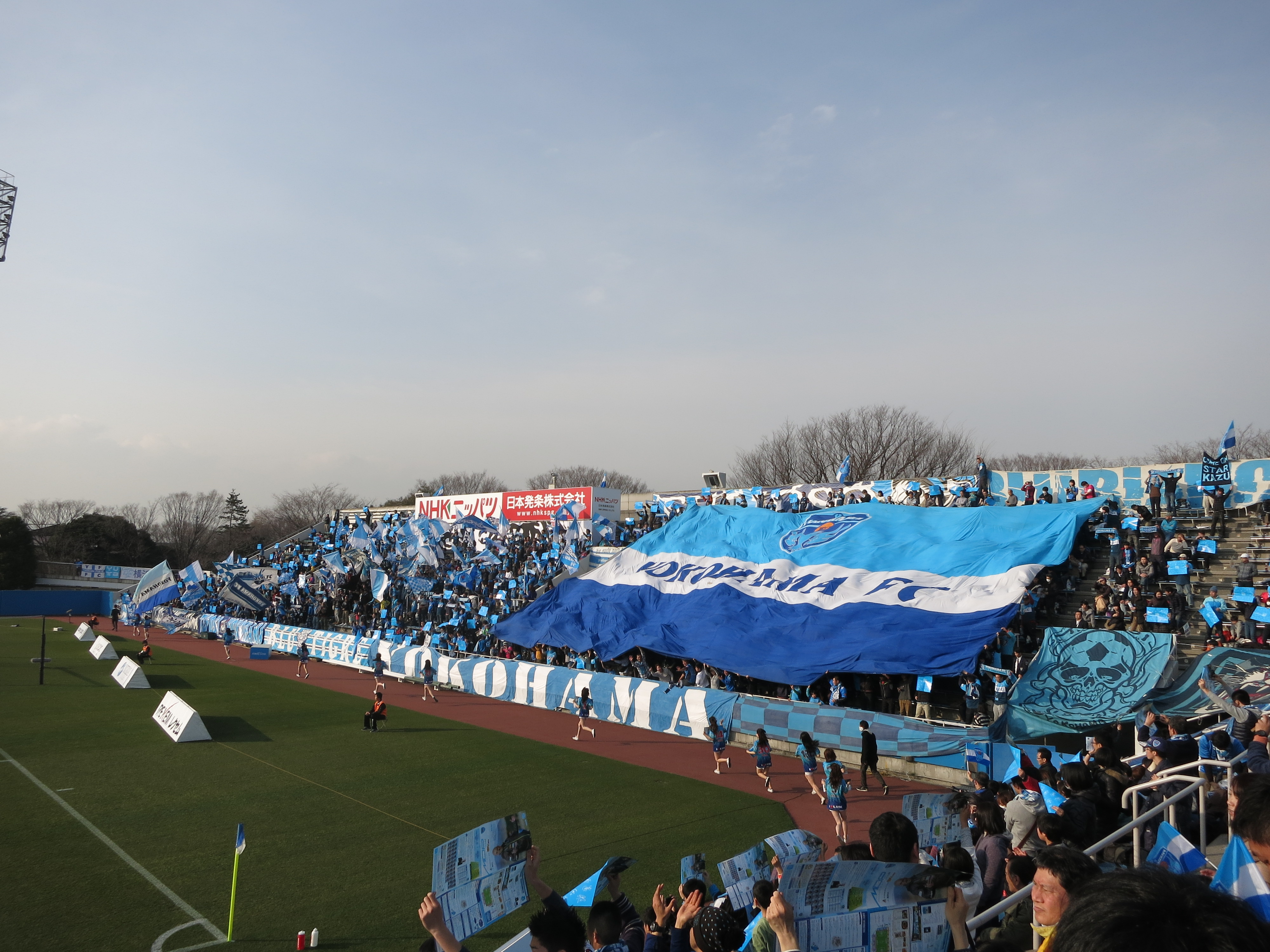 Yokohama FC supporter.